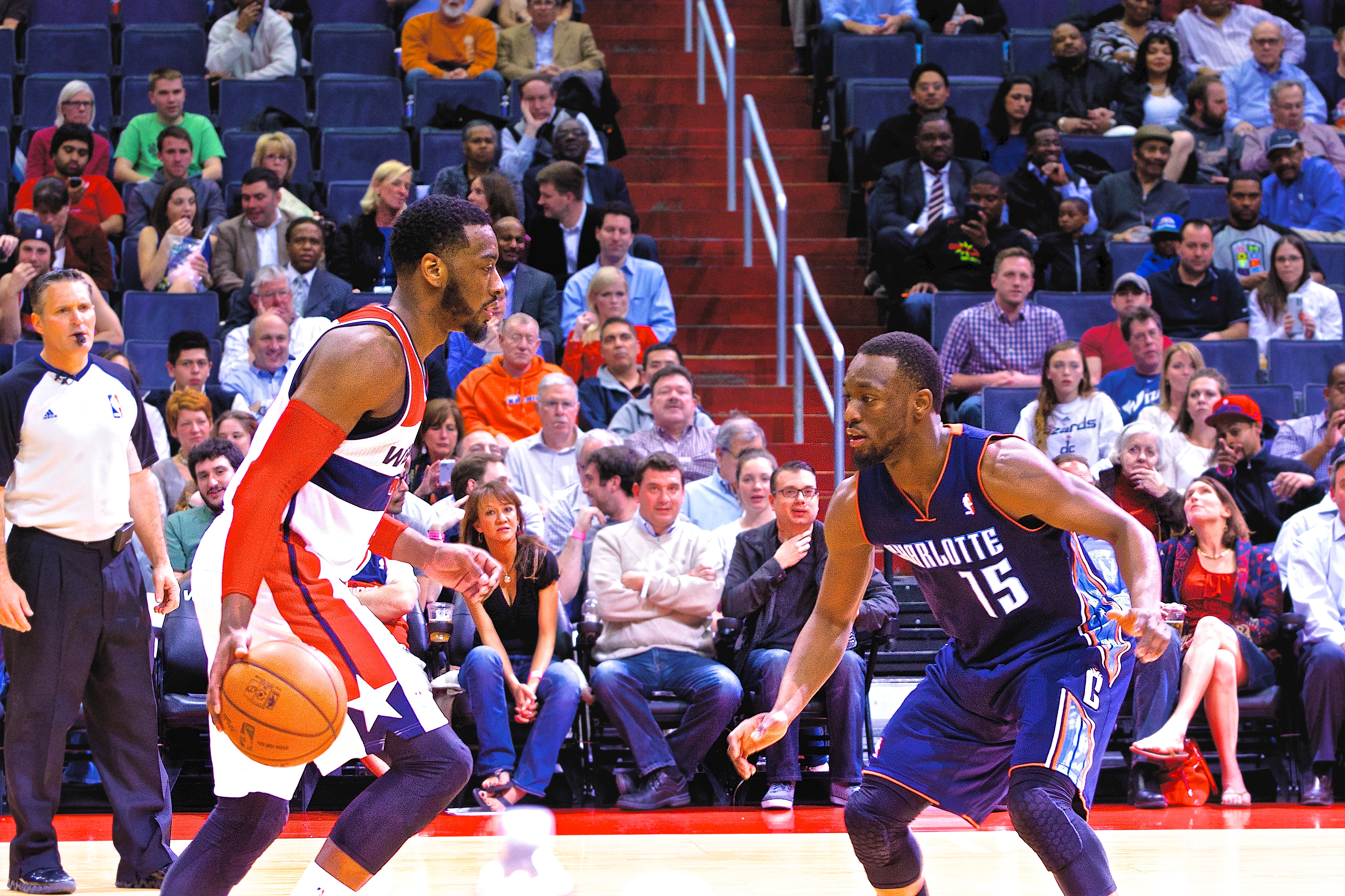 From a game played at the Verizon Center on 4/9/2014.